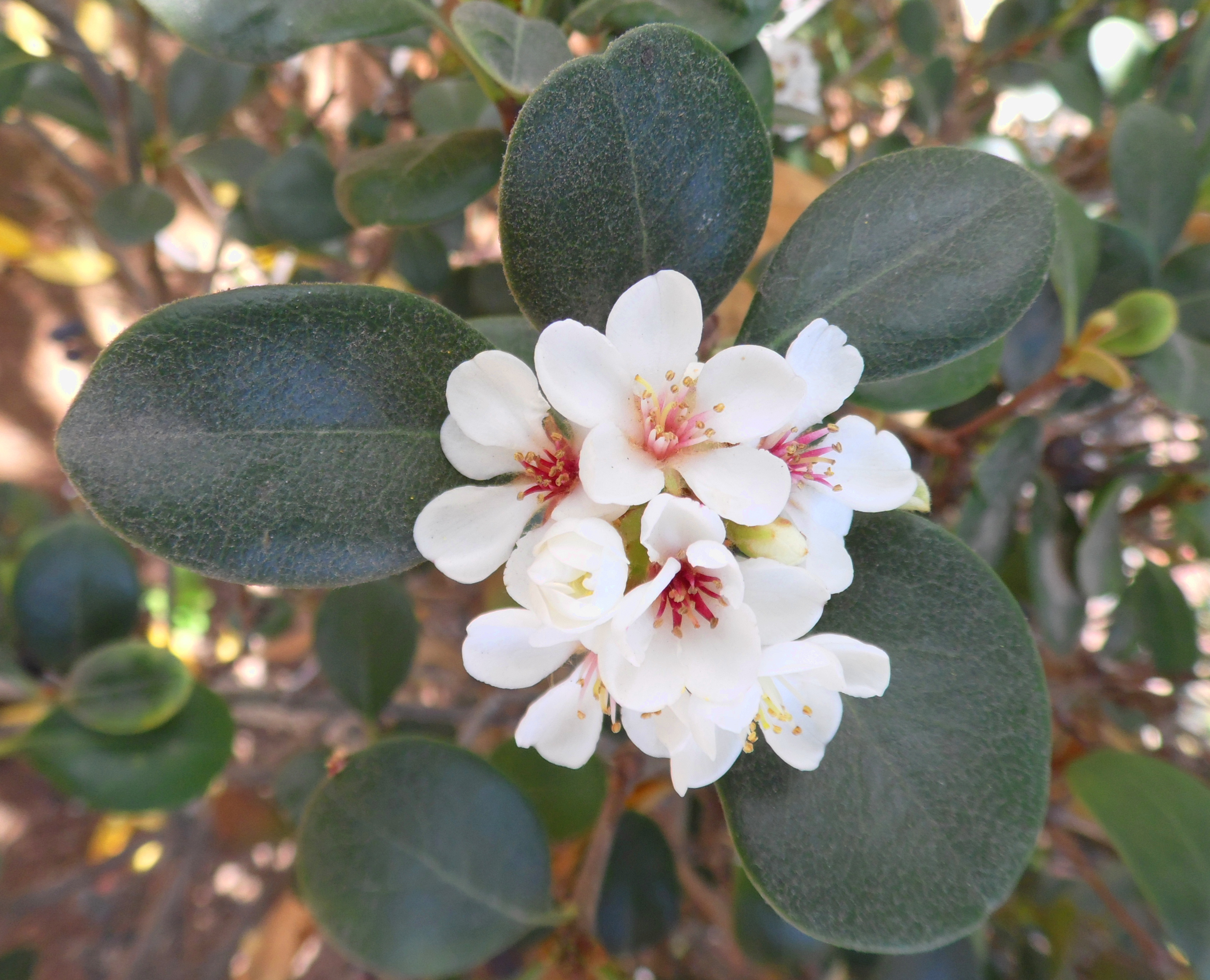 Rhaphiolepis indica in Parque Botánico de Maspalomas (Gran Canaria)